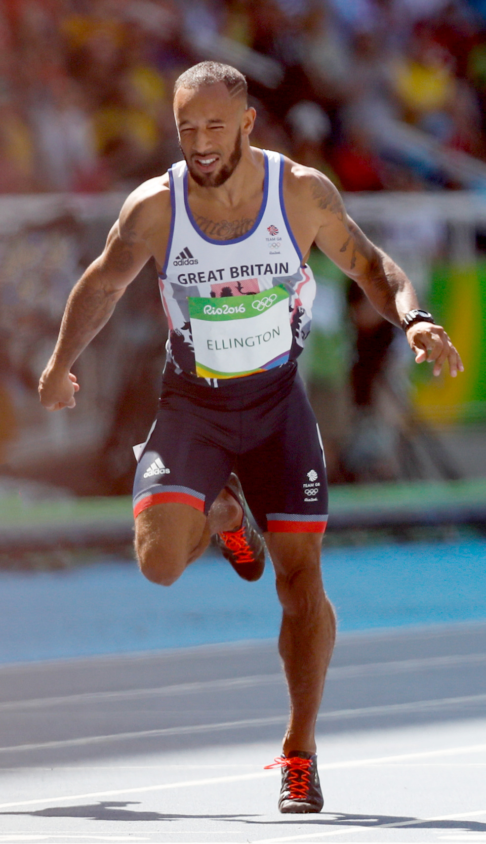 Men's 100 m sprint heats, Rio Olympics